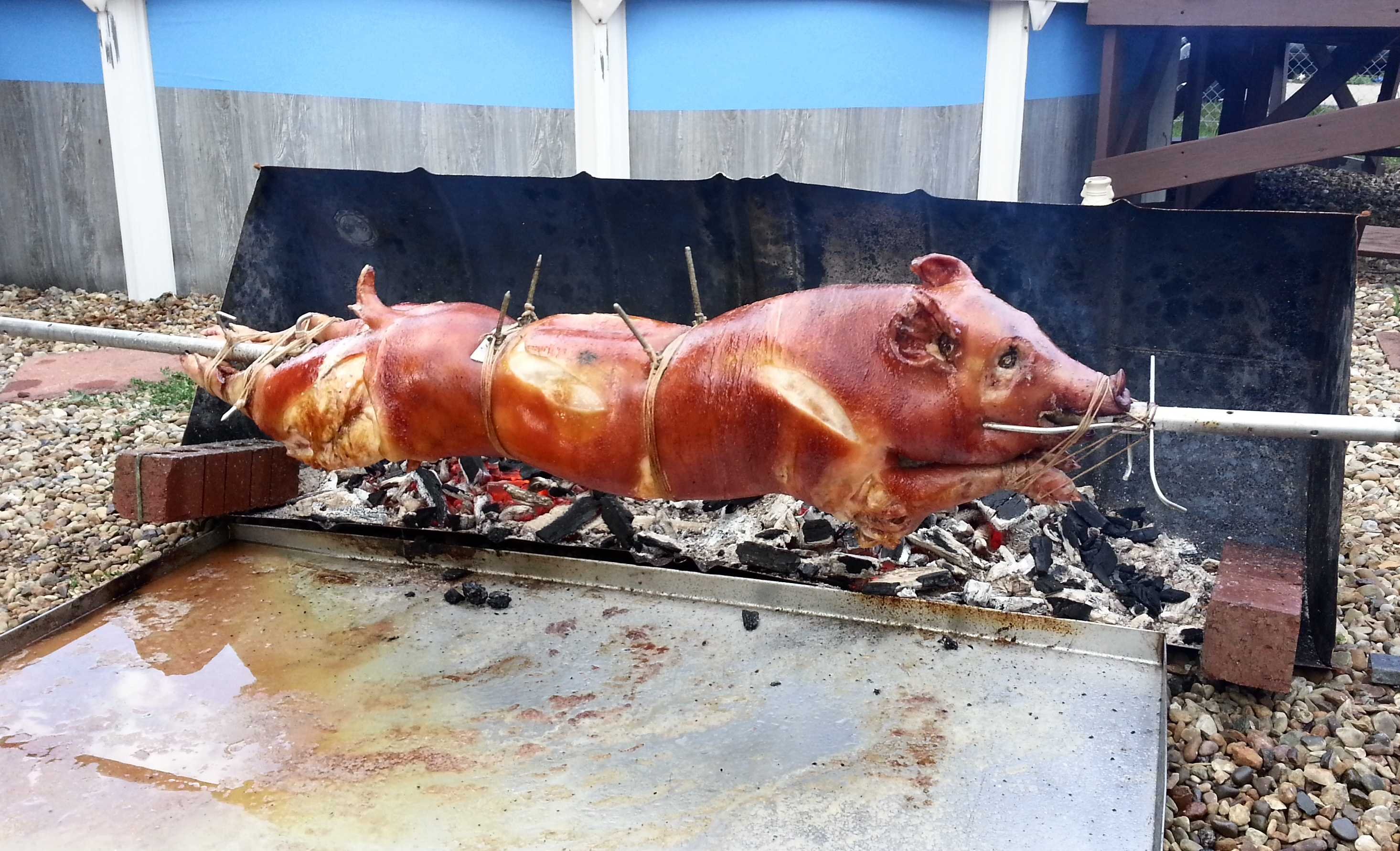 Pig roasting on a rotating spit in an American backyard.